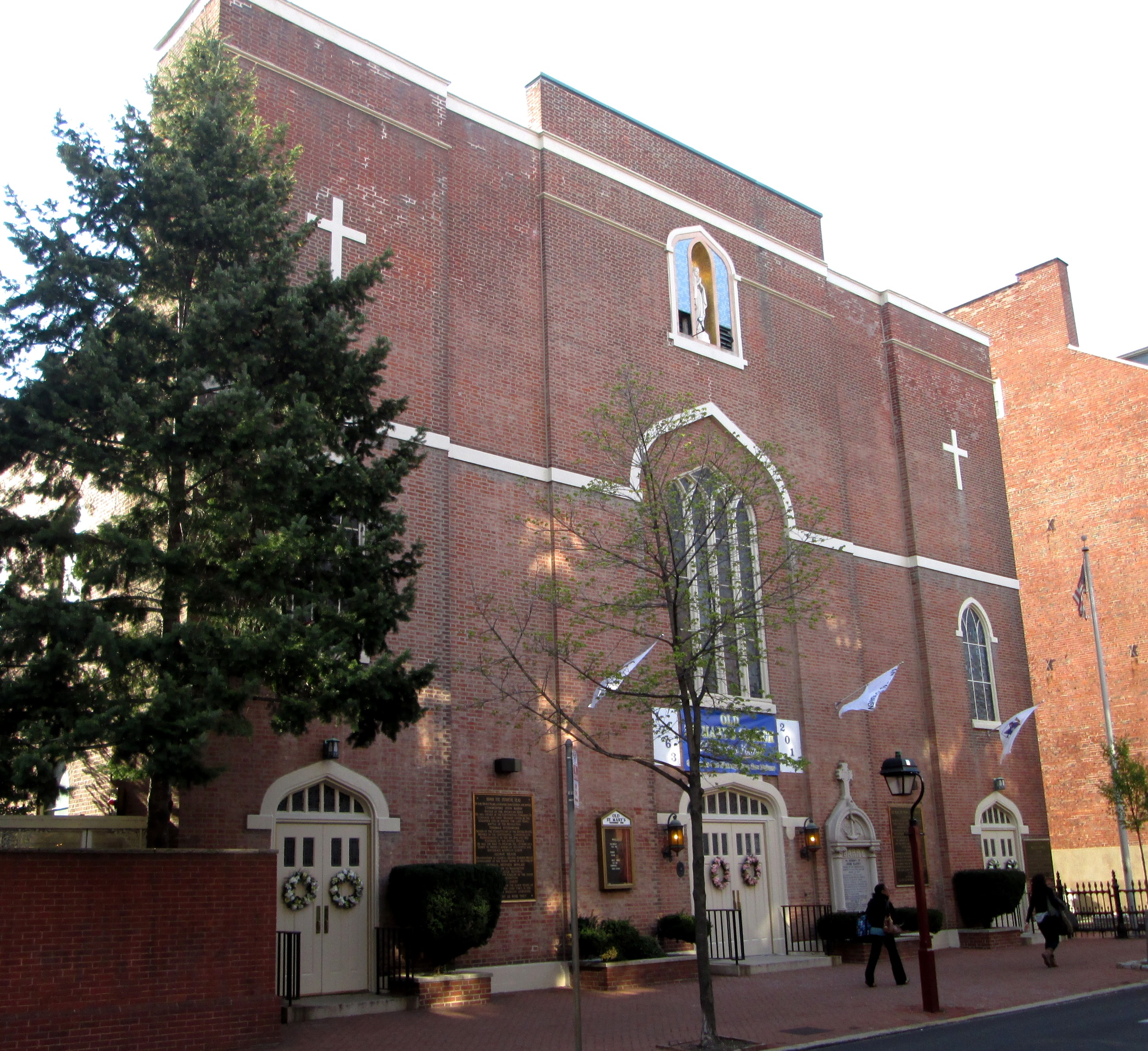 Old St. Mary's (Roman Catholic) Church at 252 S. 4th Street between Locust and Manning Streets in the Society Hill neighborhood of Philadelphia was built in 1763 by Charles Johnson, and was altered in 1782 and 1810-11. (Source: Philadelphia Architecture: A Guide to the City (2nd ed.))